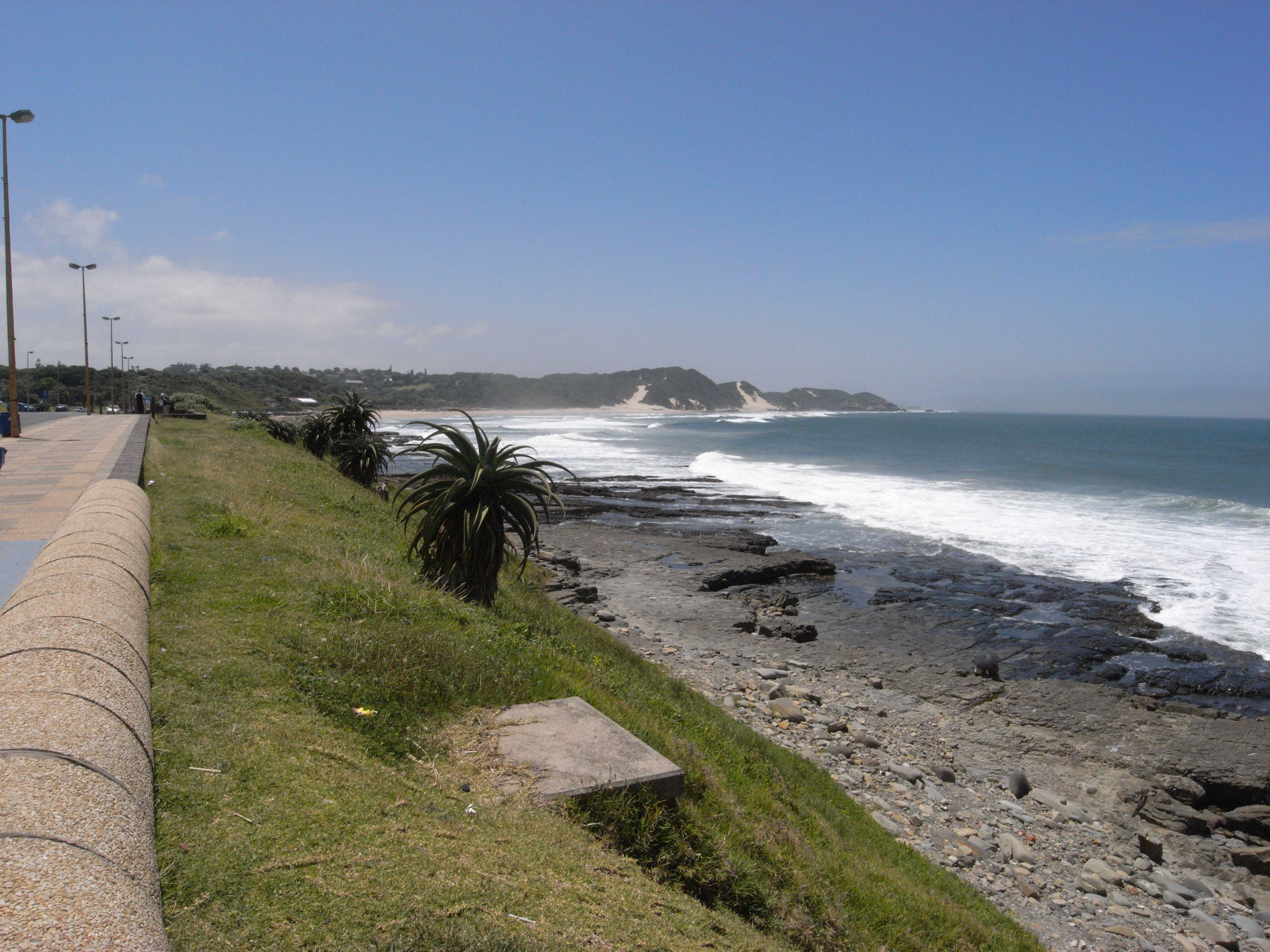 Beach from East London, RSA